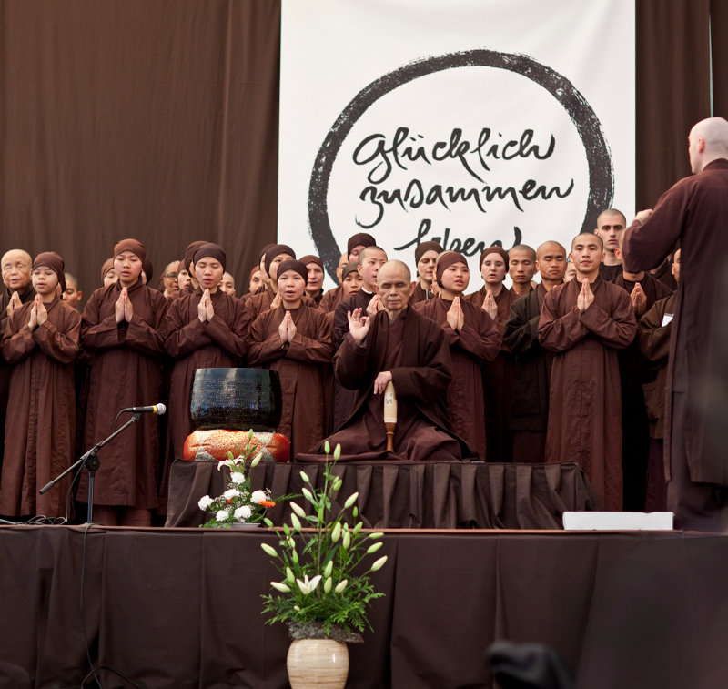 This is the namo avalokiteshvaraya chanting session during Thich Nhat Hanh visited the EIAB, Germany in 2010. Photo taken by Rolf Franke